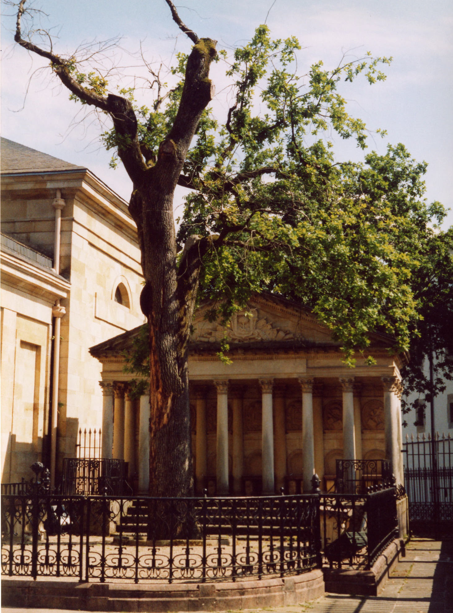 Gernikako Arbola, the Gernika oak (Quercus robur) where the lords of Biscay (including several kings of Castile and Spain) came to take the oath of respect the Biscay Fueros (Rules and Rights).